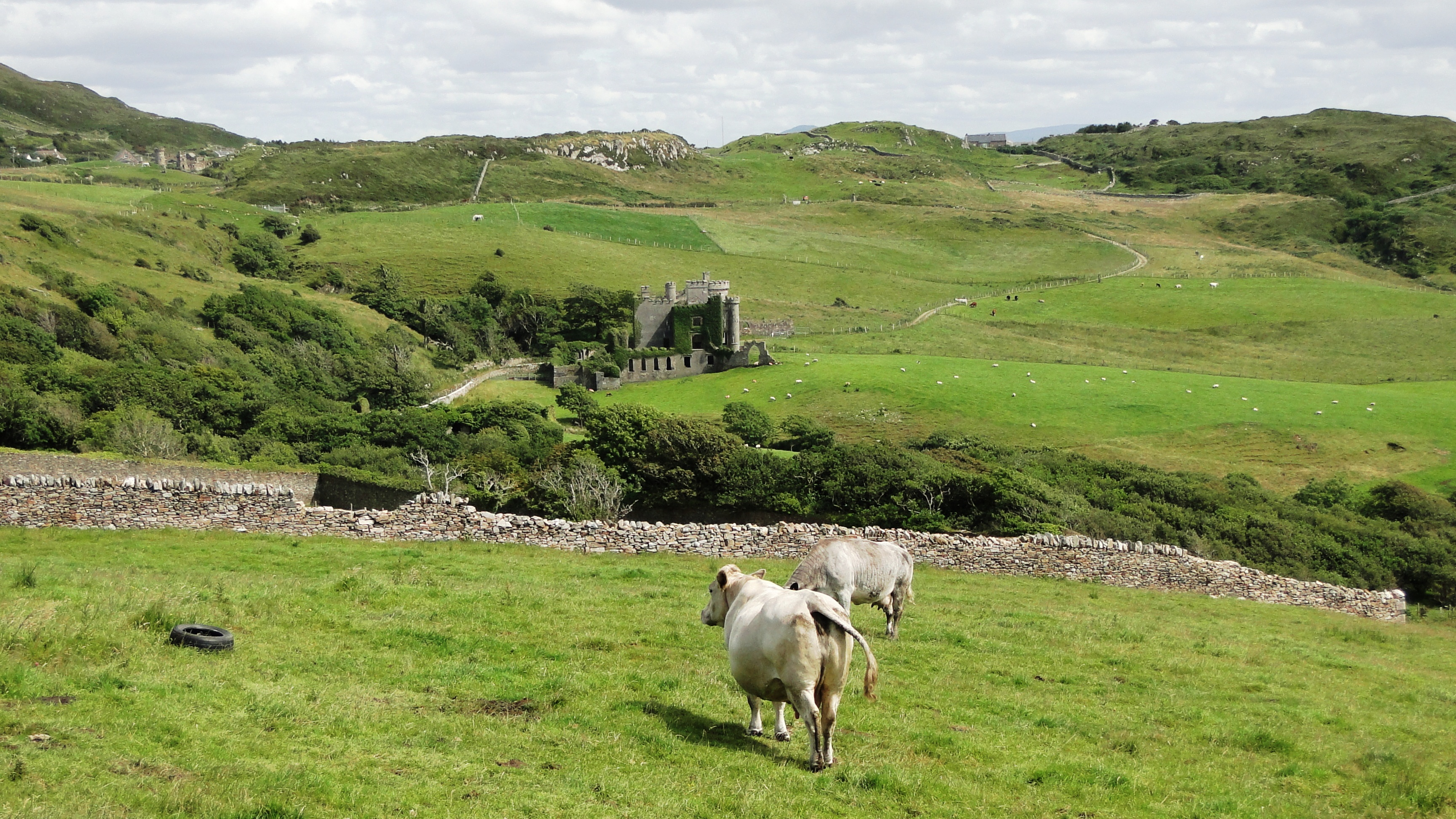 Ruins of Clifden Castle viewed from the west